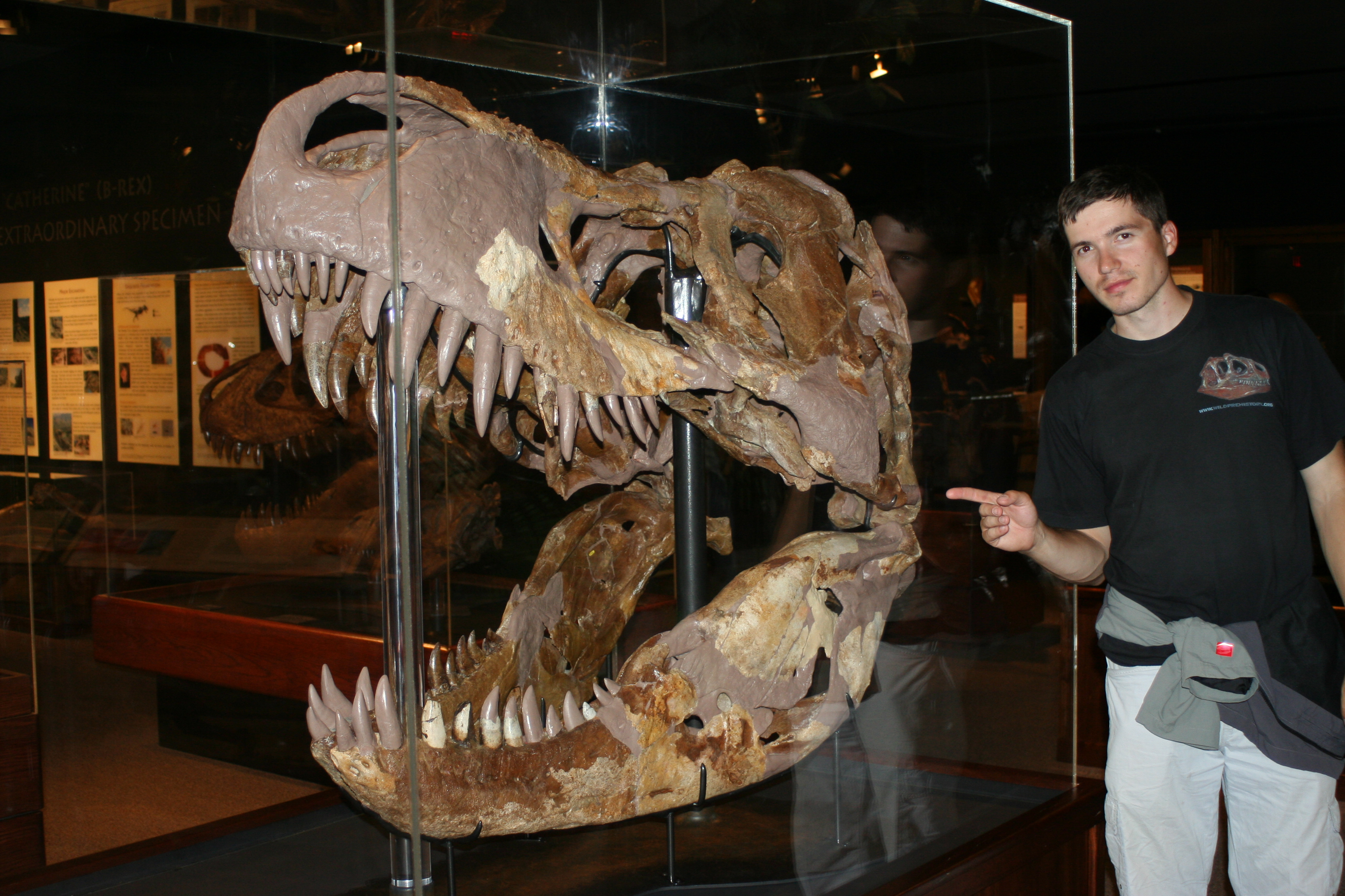 Vladimír Socha standing by a giant Tyrannosaurus rex skull (MOR 008) in the Museum of the Rockies, Bozeman, Montana.